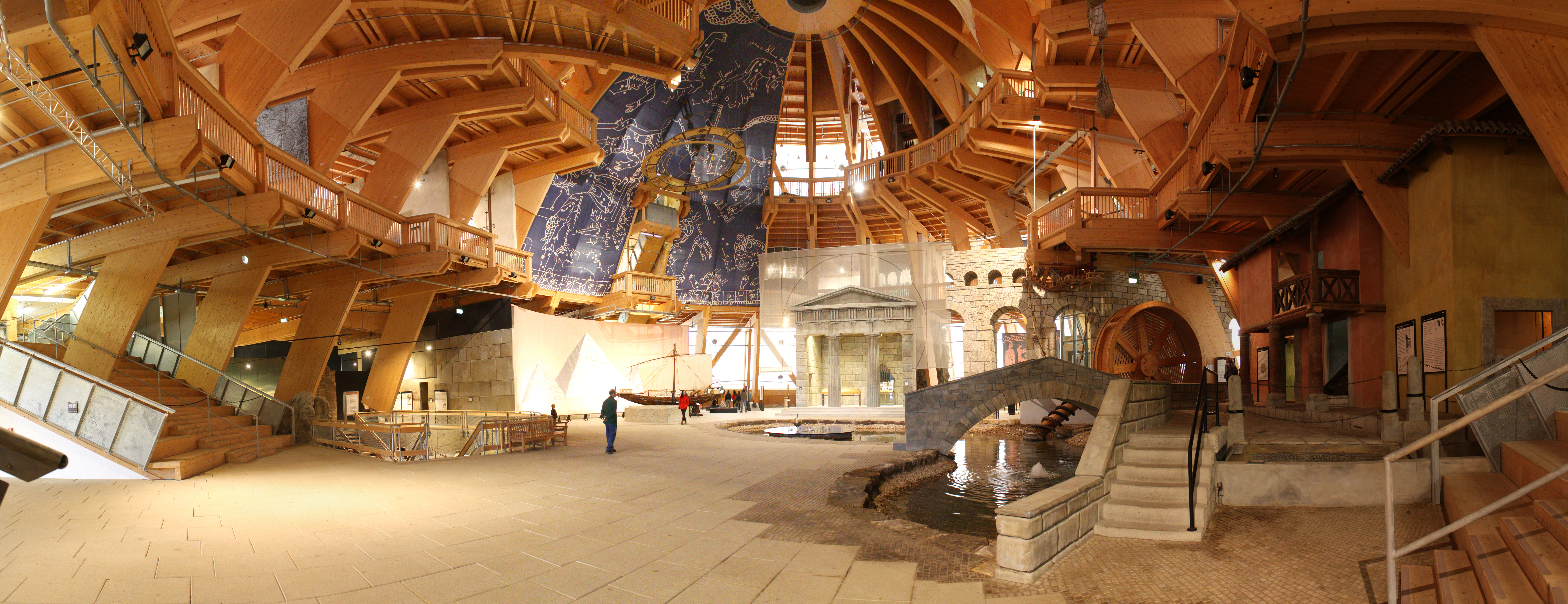 interior from the millennium tower (Jahrtausendturm)